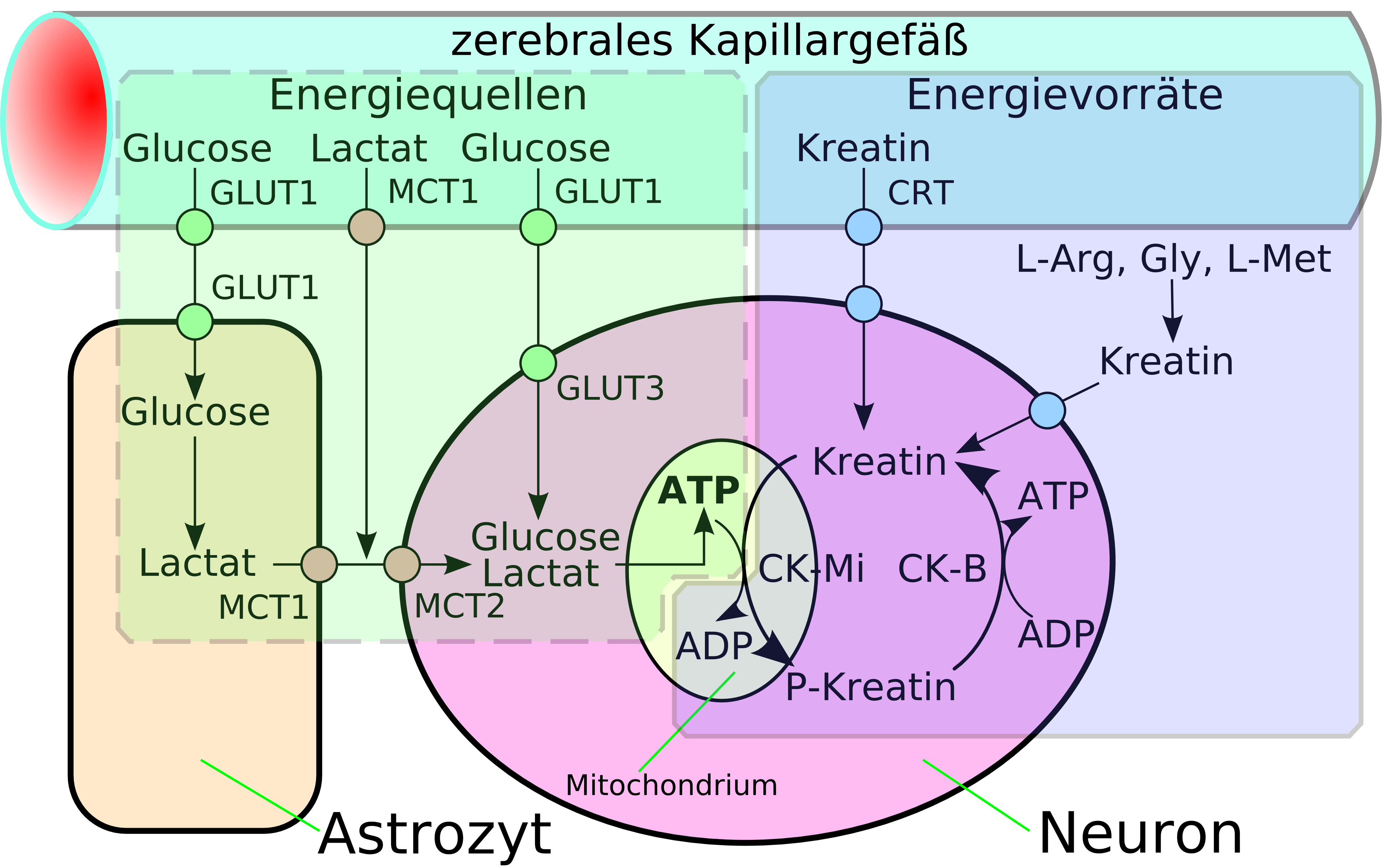 A sketch displaying the network pathways of energy sources and energy stores in the CNS. Inspired by a sketch from S. Ohtsuki: New aspects of the blood-brain barrier transporters; its physiological roles in the central nervous system. In: Biol Pharm Bull. 27, 2004, pp. 1489-1496. PMID15467183